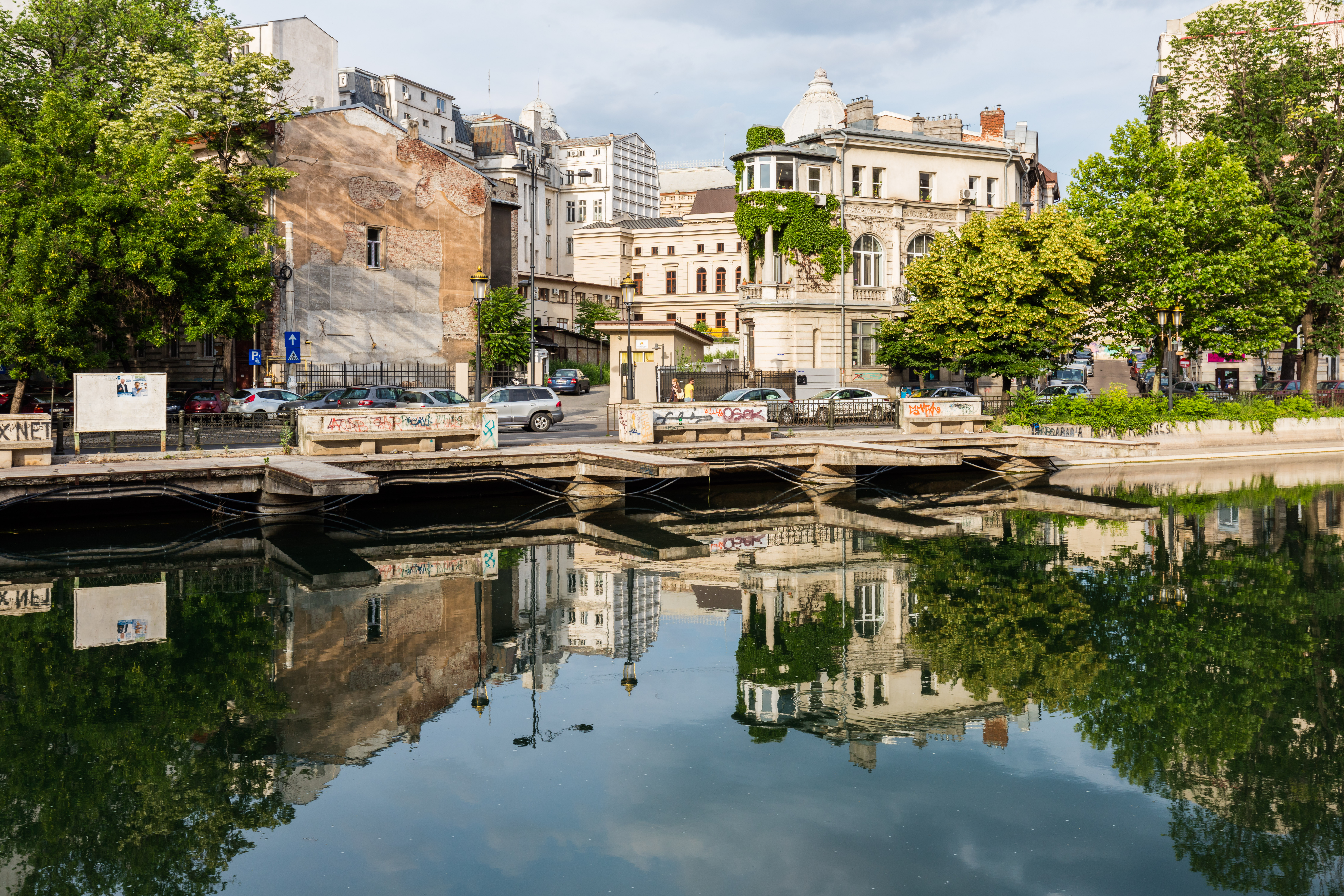 Dambovita river, Bucharest, Romania